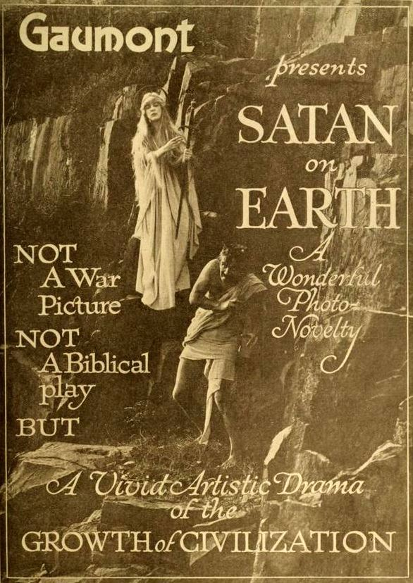 Ad for the American film Satan on Earth (1919), on page 423 of the January 25, 1919 Moving Picture World.